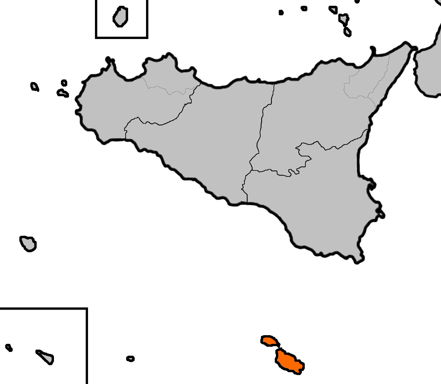 Localisation map of the Giustizierato di Malta between 1282 to 1530.